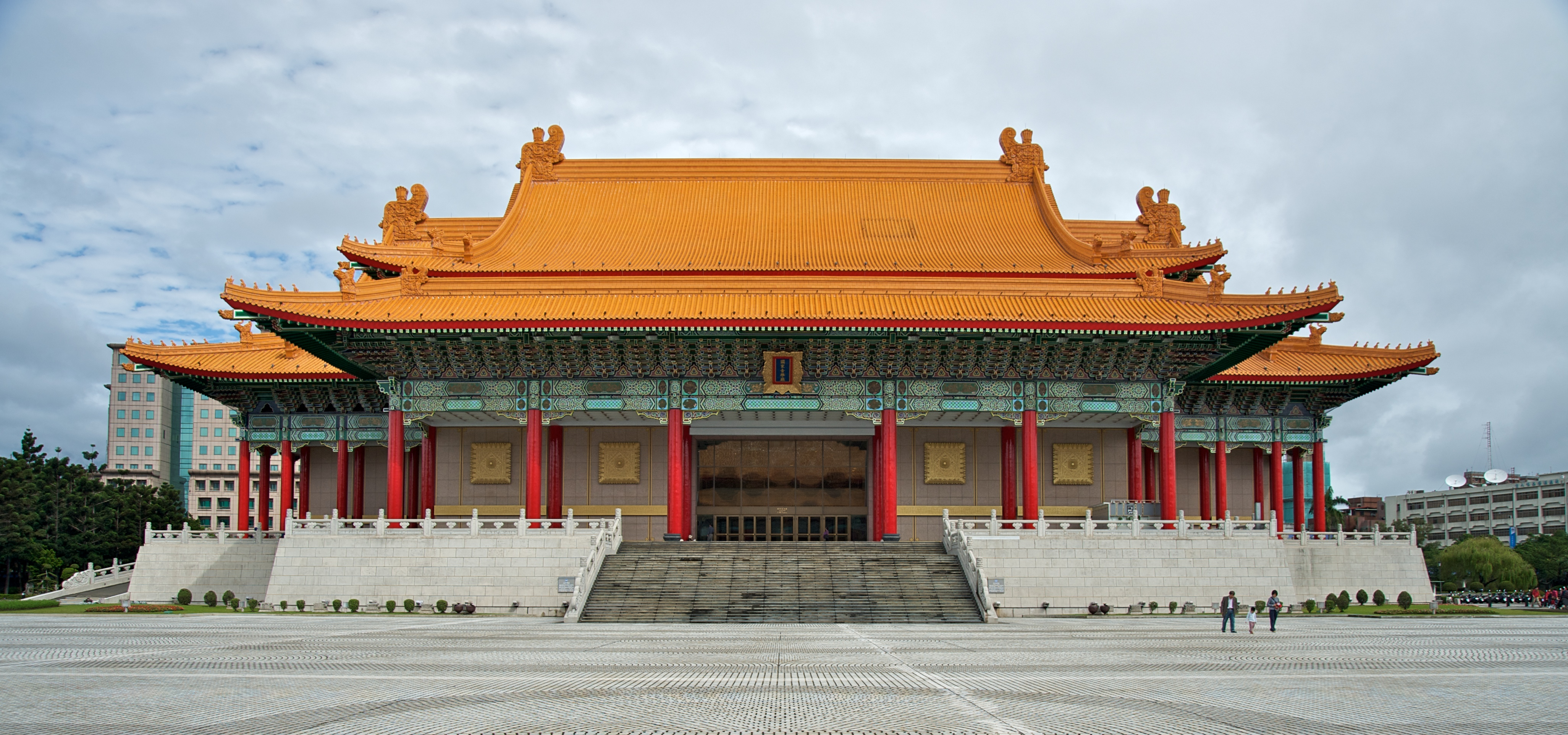 National Concert Hall at the Liberty Square in Taipei, Taiwan